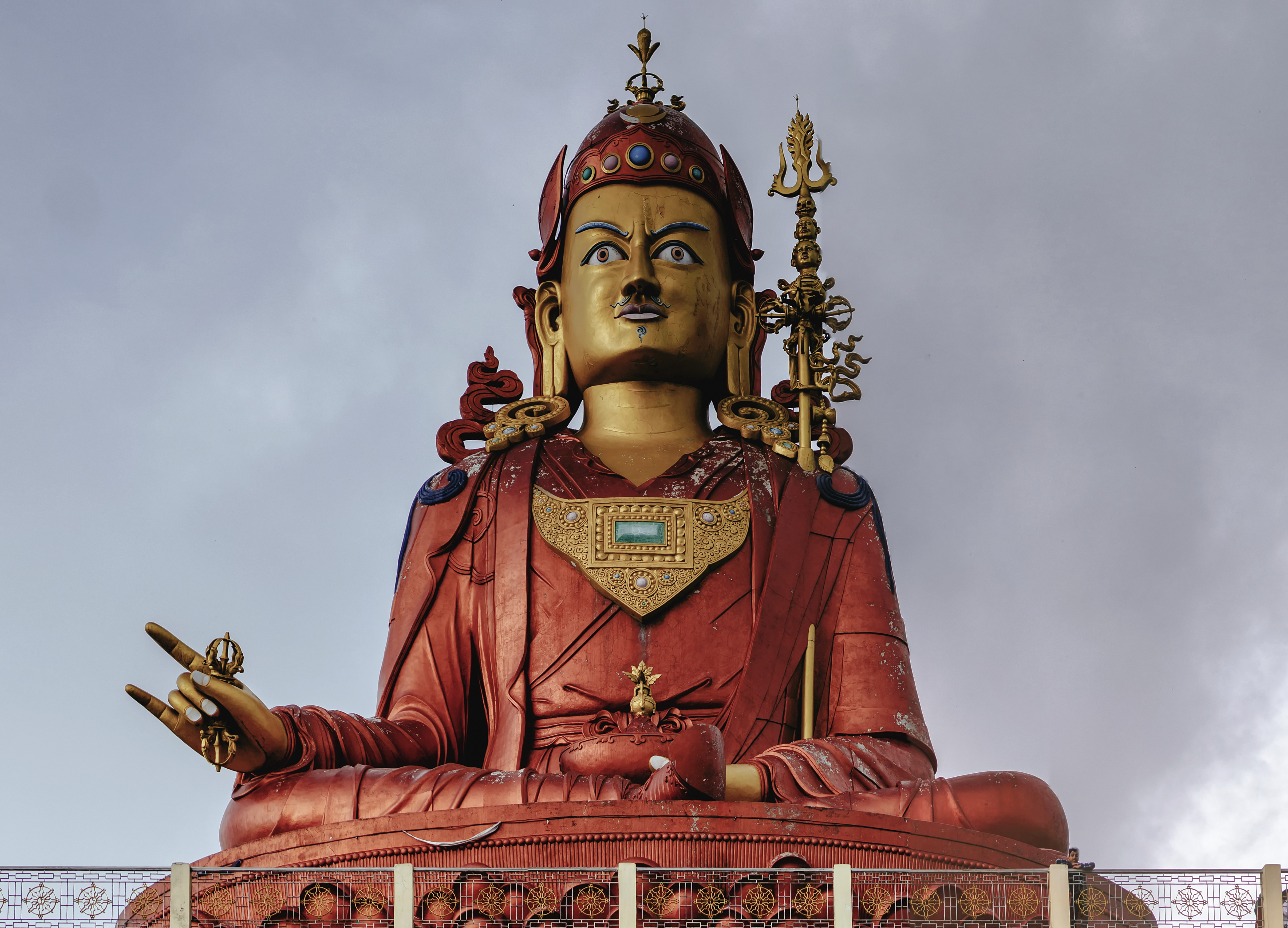 Statue of the Guru Padmasambhava (Guru Rinpoche), the patron saint of Sikkim. This is situated at the top of Samdruptse Hill, Namchi in Sikkim. This is the largest statue of Guru Padmasambhava in the world.